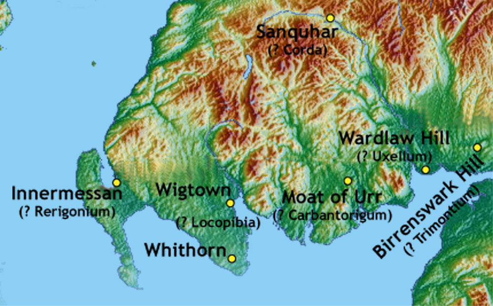 Galloway, Scotland (topo), with Ptolemy's towns of the Novantae and Selgovae